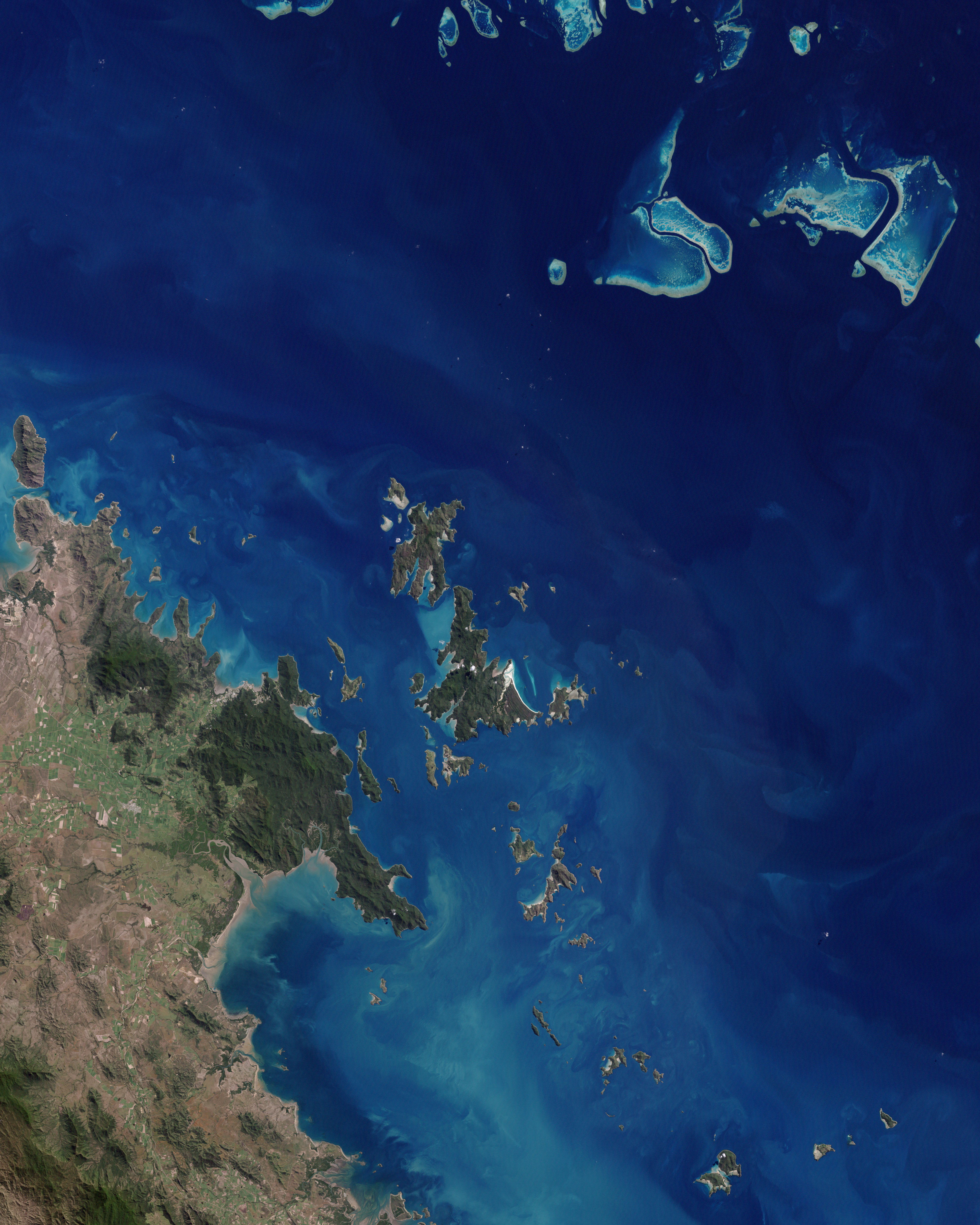 This scene is dominated by the largest island and namesake of the chain. Deep green forest covers most of Whitsunday Island, which is outlined by brilliant white sand beaches, the largest and most dramatic being Whitehaven Beach at the south-eastern end of the island. On Hamilton Island, the strong linear feature at the southern end shows where a jet-accessible runway was added to allow airlines from major Australian cities to fly directly to the islands. The swirls of pale blue around the islands show a mix of sandy bottom waters and shallow, fringing coral reefs. The green land in the south-western corner of the image is a small section of Conway Ranges National Park, on the shoreline of mainland Queensland.